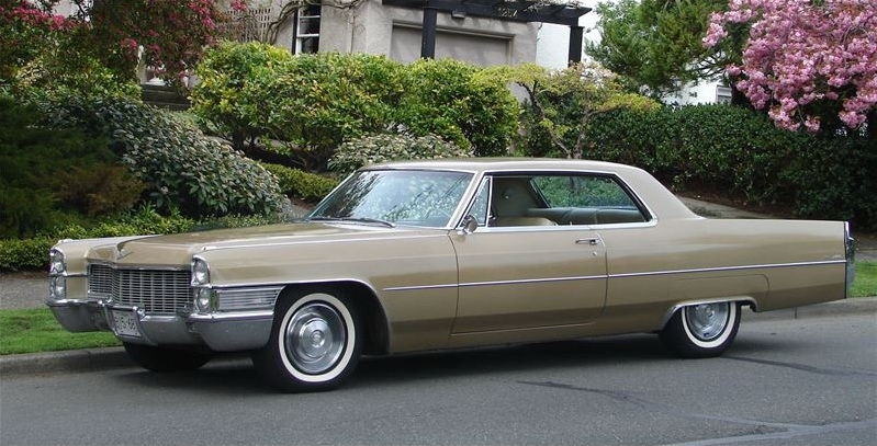 This is a picture of a vehicle (name of it is on the file name).